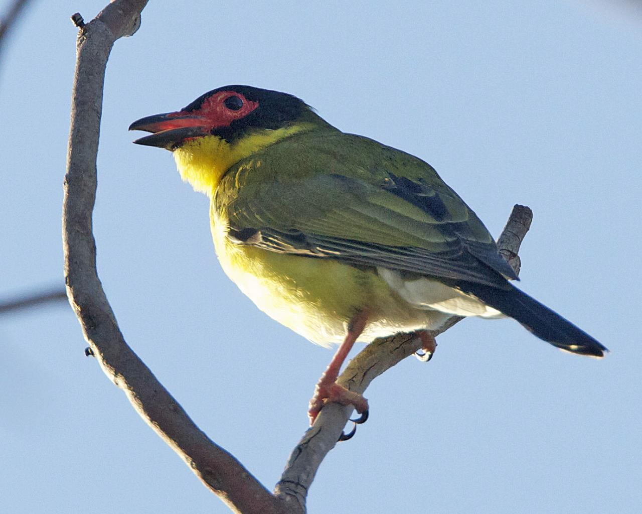 Figbird Sphecotheres viridis Northern form: Clements 5th edition (incl. 2005 revisions): Sphecotheres viridis flaviventris Clements 6th edition (incl. 2009 revisions): Sphecotheres vieilloti flaviventris Airport hotel, Darwin, Northern Territories, Australia August 2010 Distribution: 690V0368